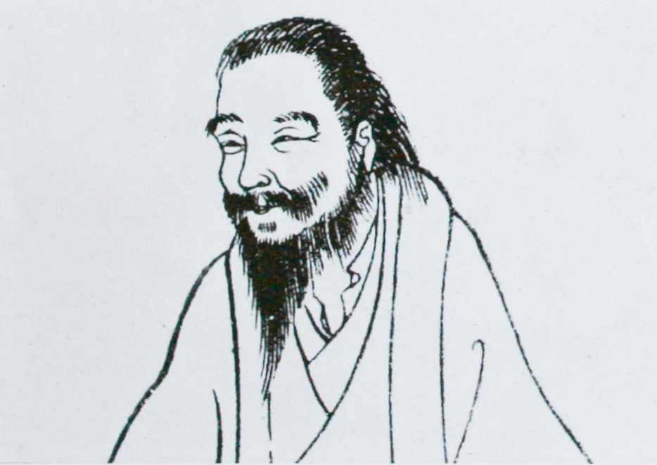 Portrait of KITAJIMA SETSUZAN（1636-1697) calligrapher